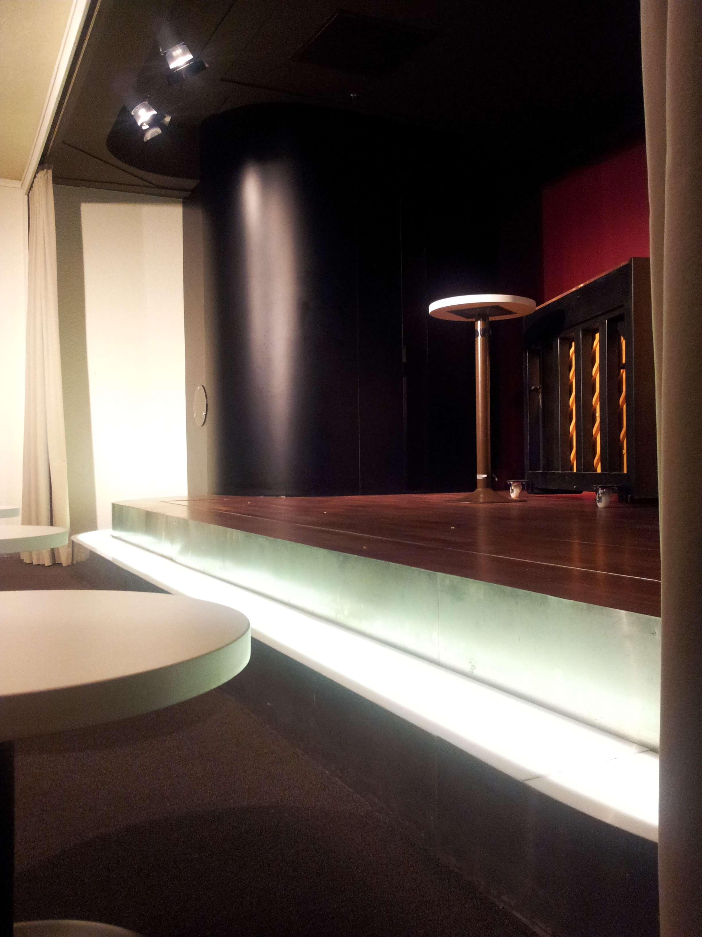 Mirliton Theater, stage (with Bechstein piano from 1972)